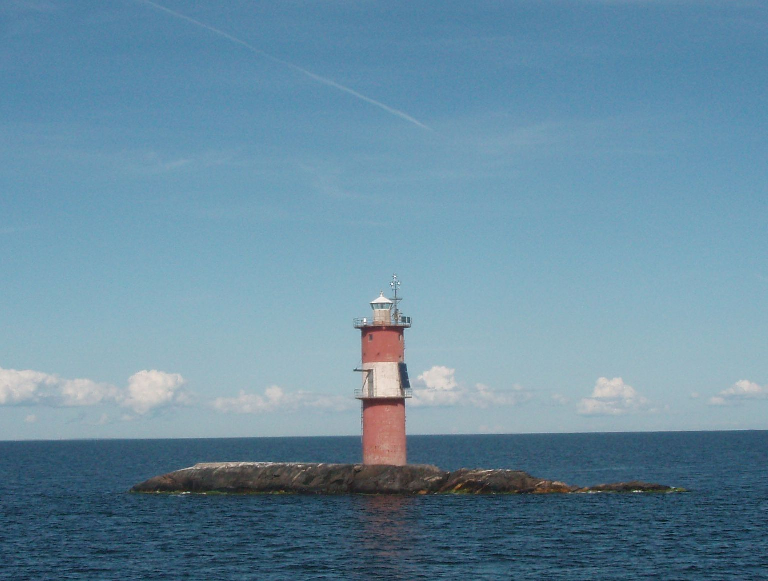 The Finnish lighthouse Flötjan in the Alandian sea